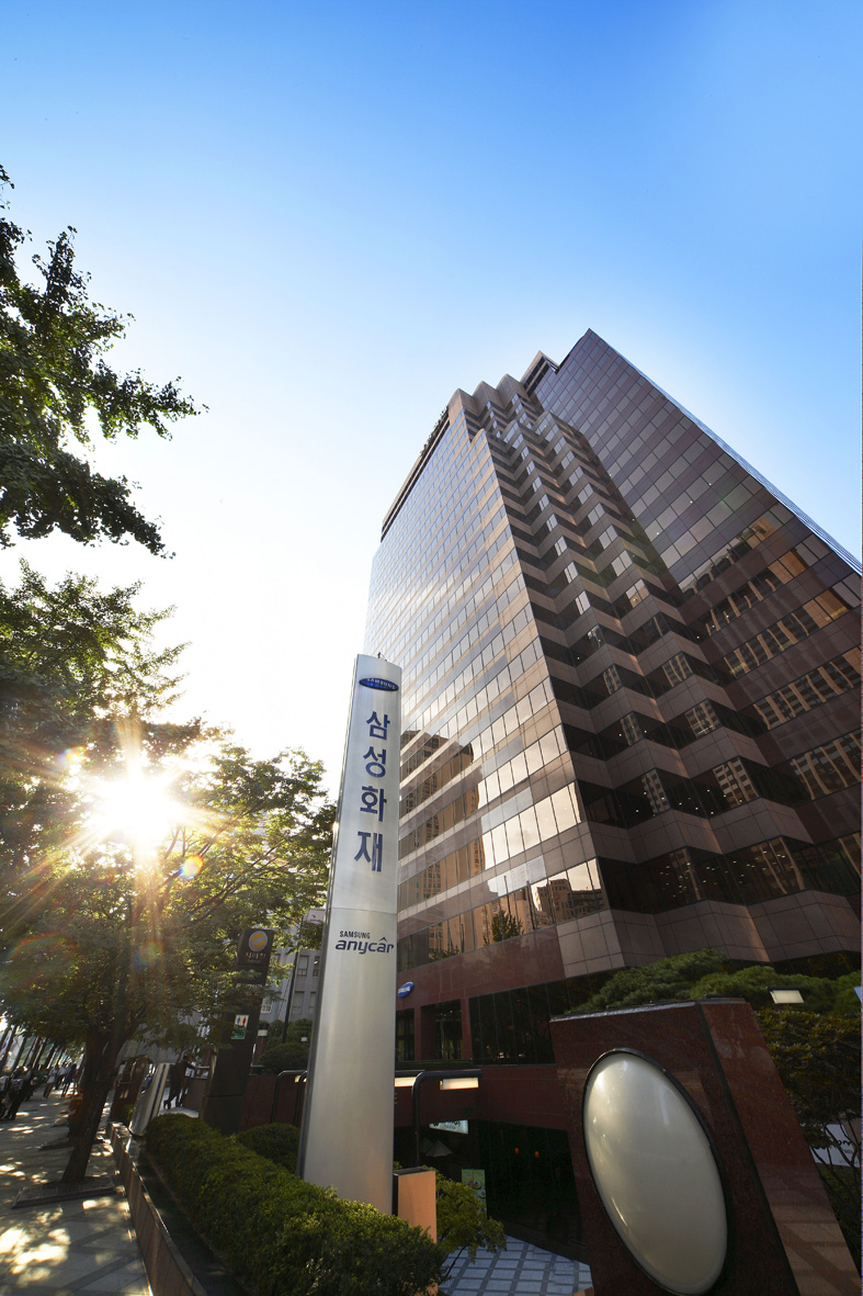 This is an image of Samsung Fire & Marine Insurance HQ